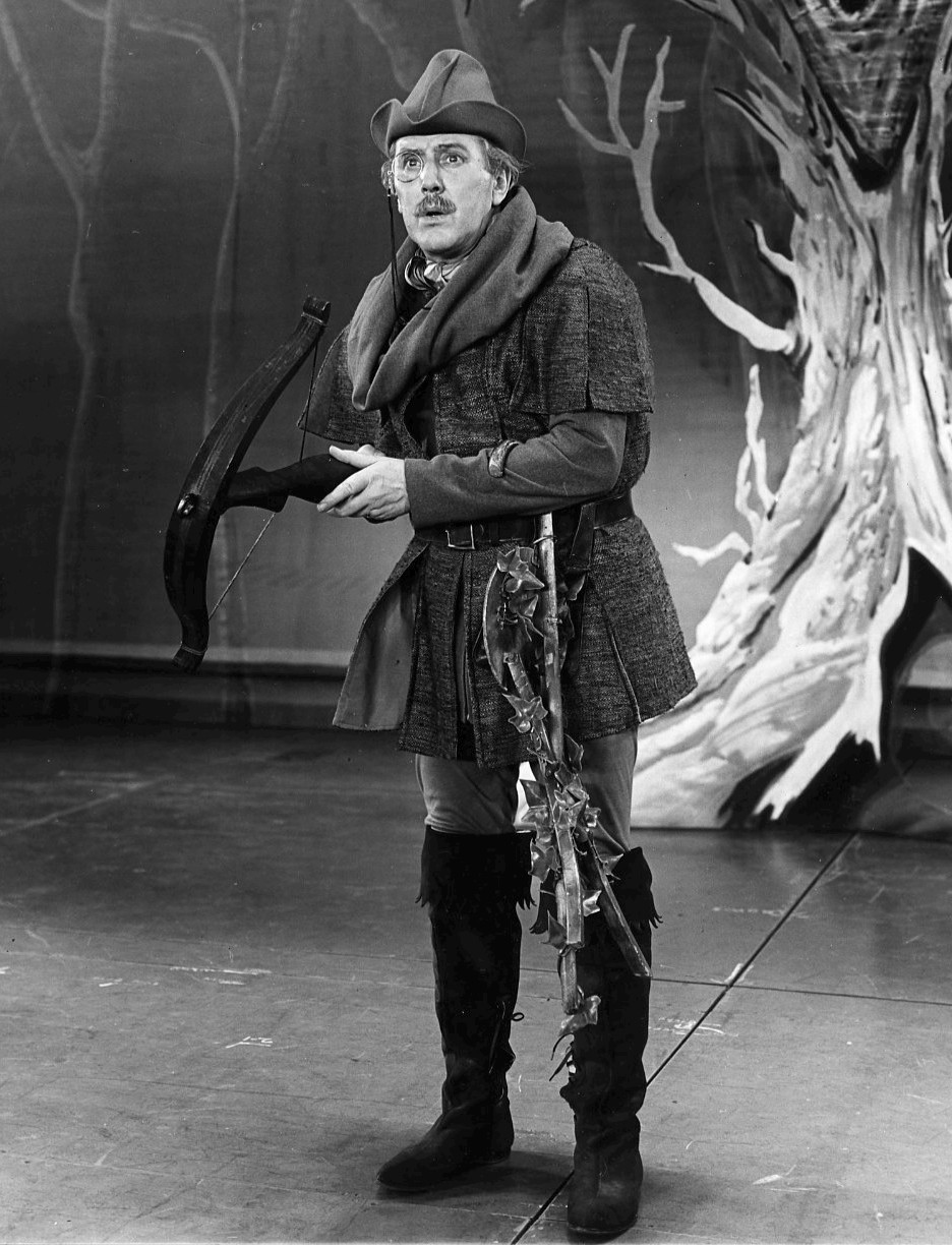 Photo of Robert Coote as Pellinore from the musical Camelot.